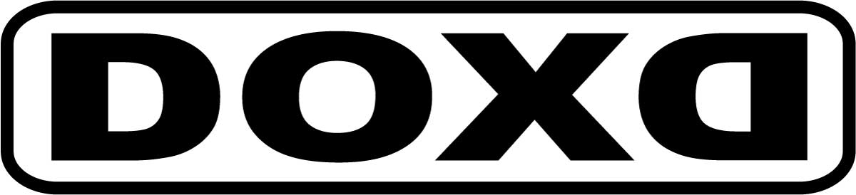 Doxa Records Logo